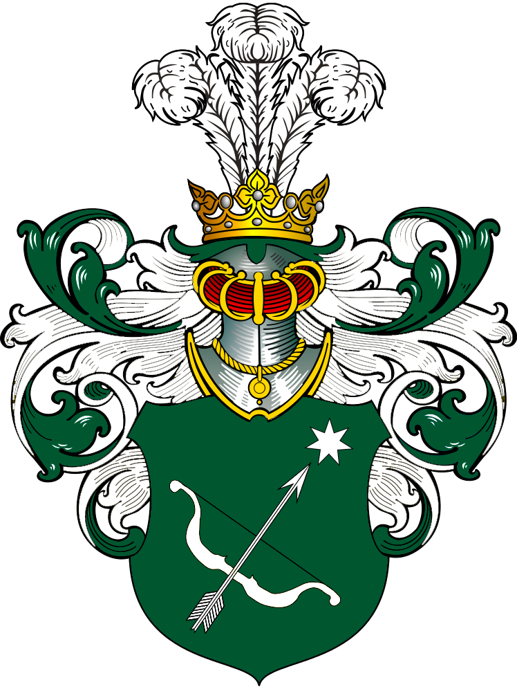 Coat of arms used by the Tutkowski family